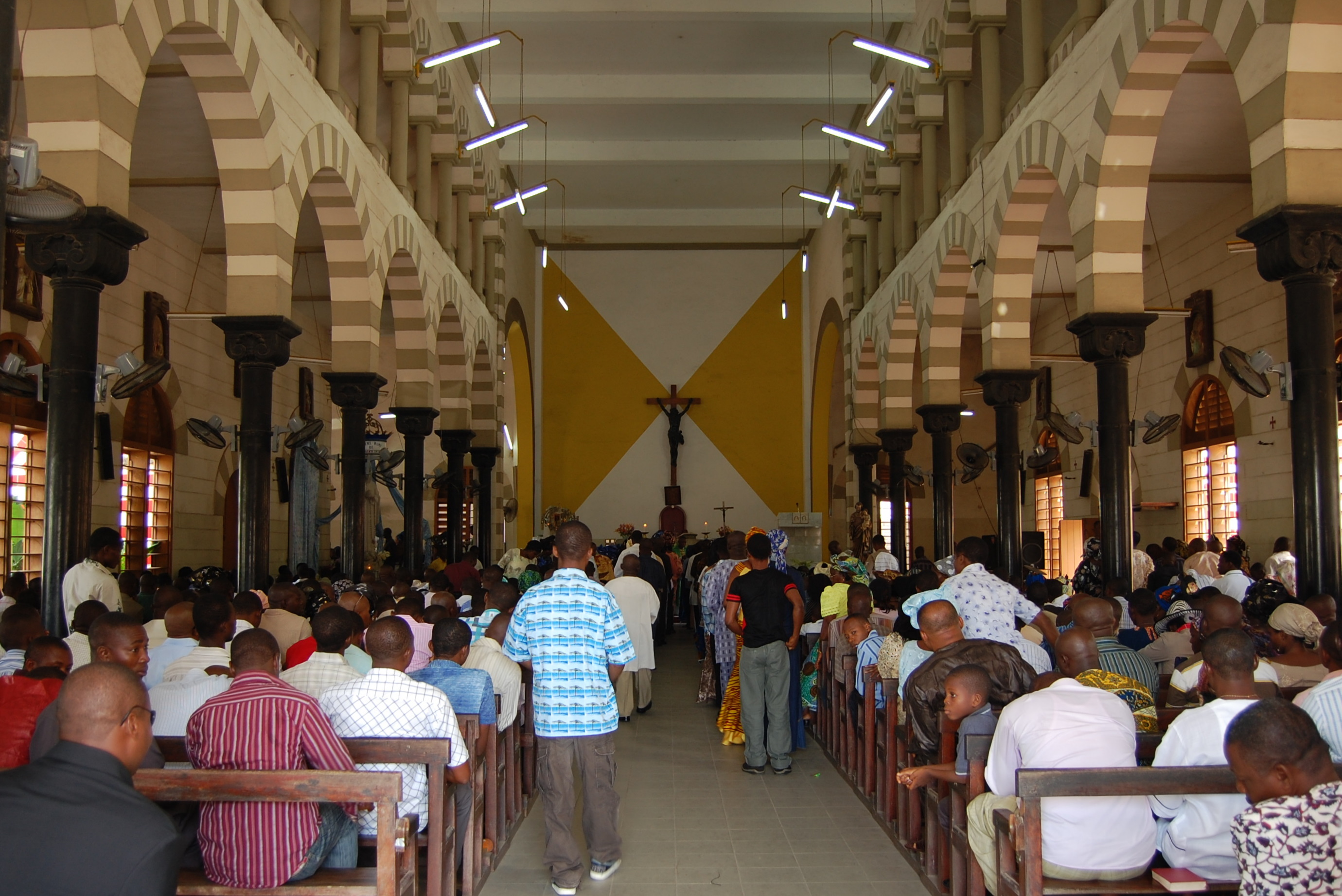 Cotonou Cathedral, Benin. International Conference on Microfinance, Migration and Development, November 2007